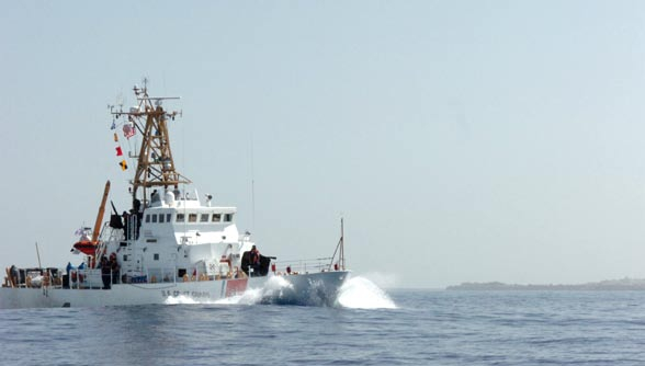 Coast Guard Cutter Ocracoke ships out from Guantanamo Bay Monday, May 12